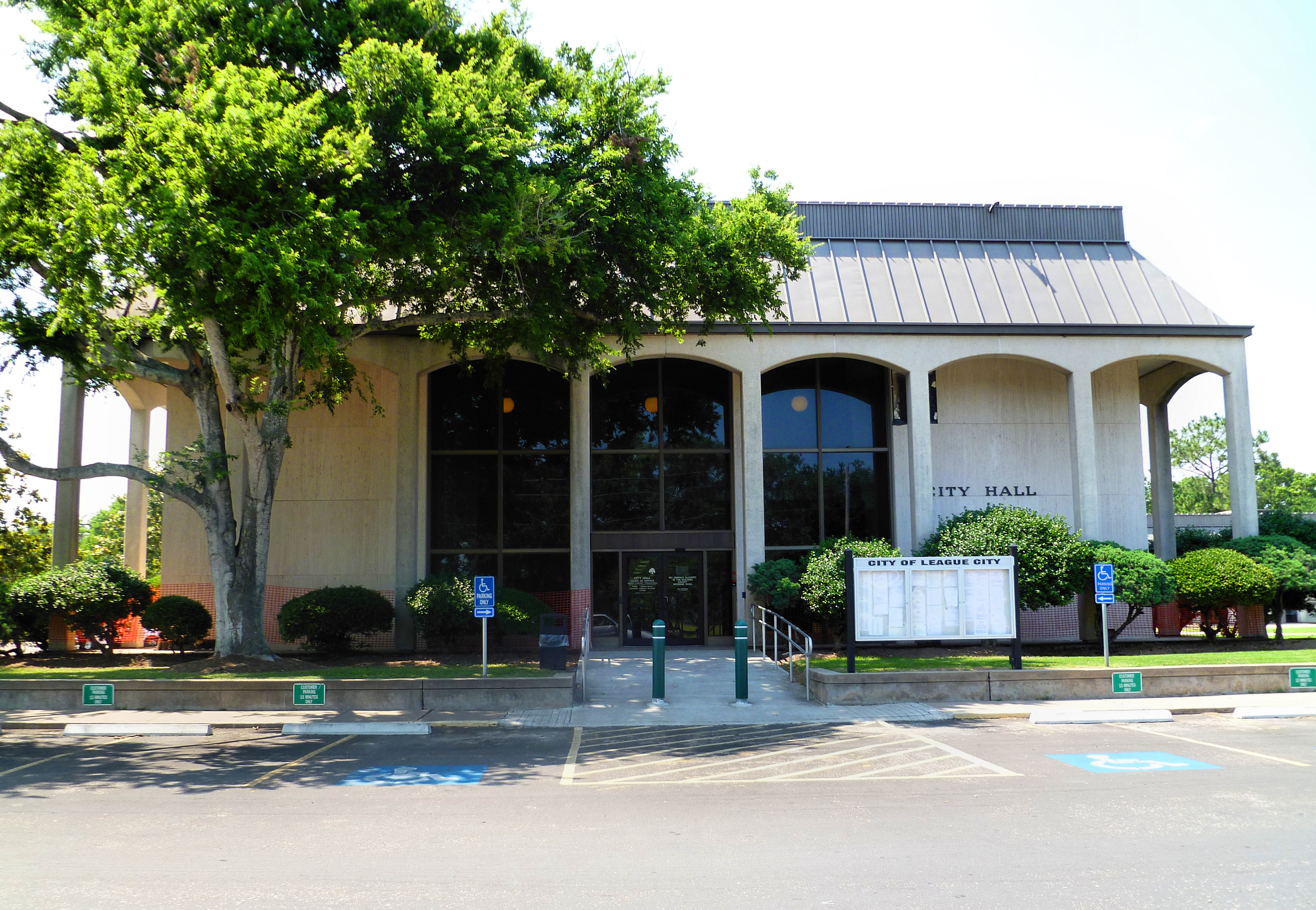 City Hall. League City, Texas, USA. 77573